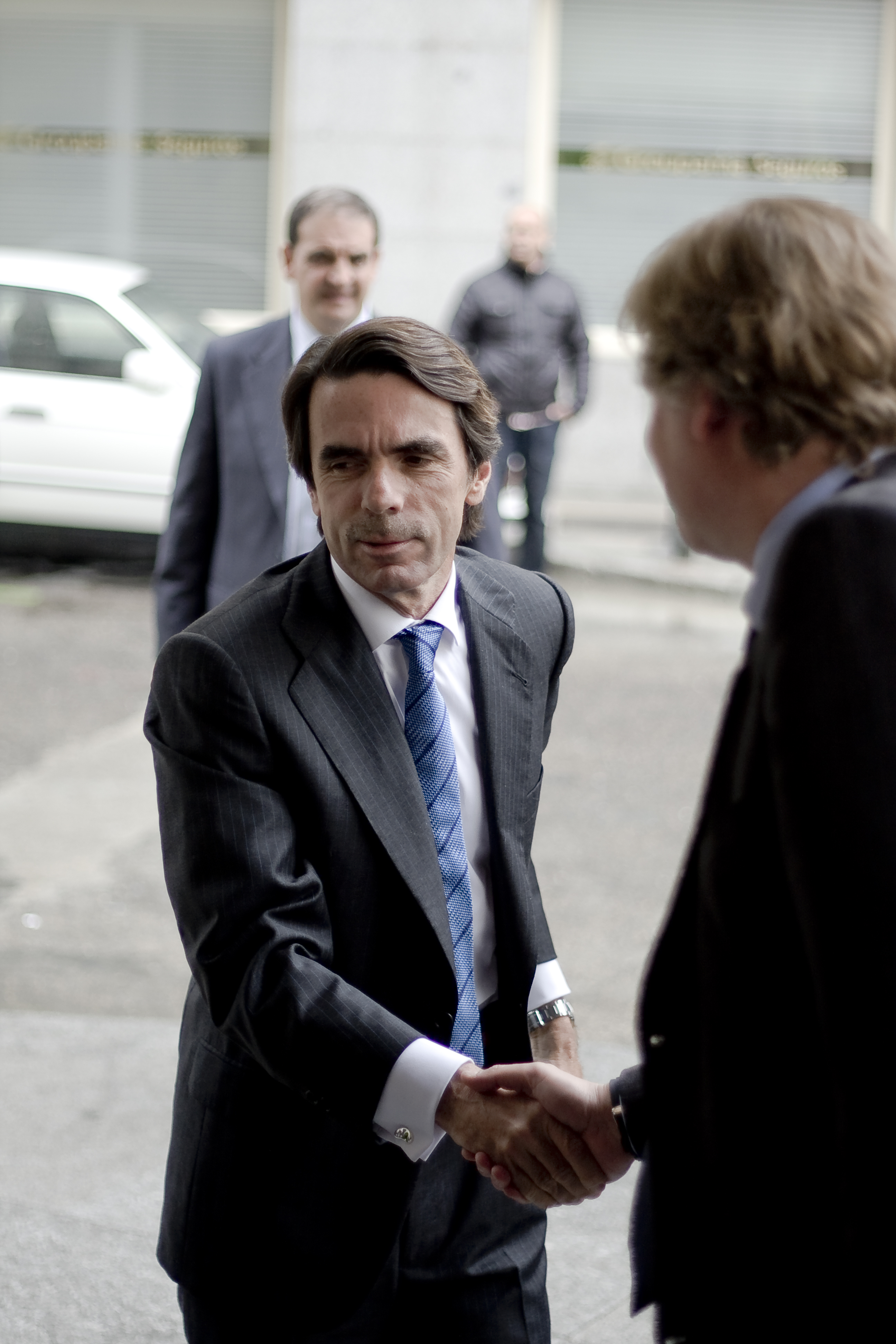 Economic Ideas Forum, Madrid, Spain